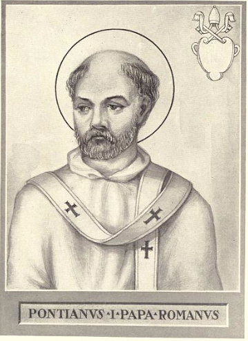 This illustration is from The Lives and Times of the Popes by Chevalier Artaud de Montor, New York: The Catholic Publication Society of America, 1911. It was originally published in 1842.